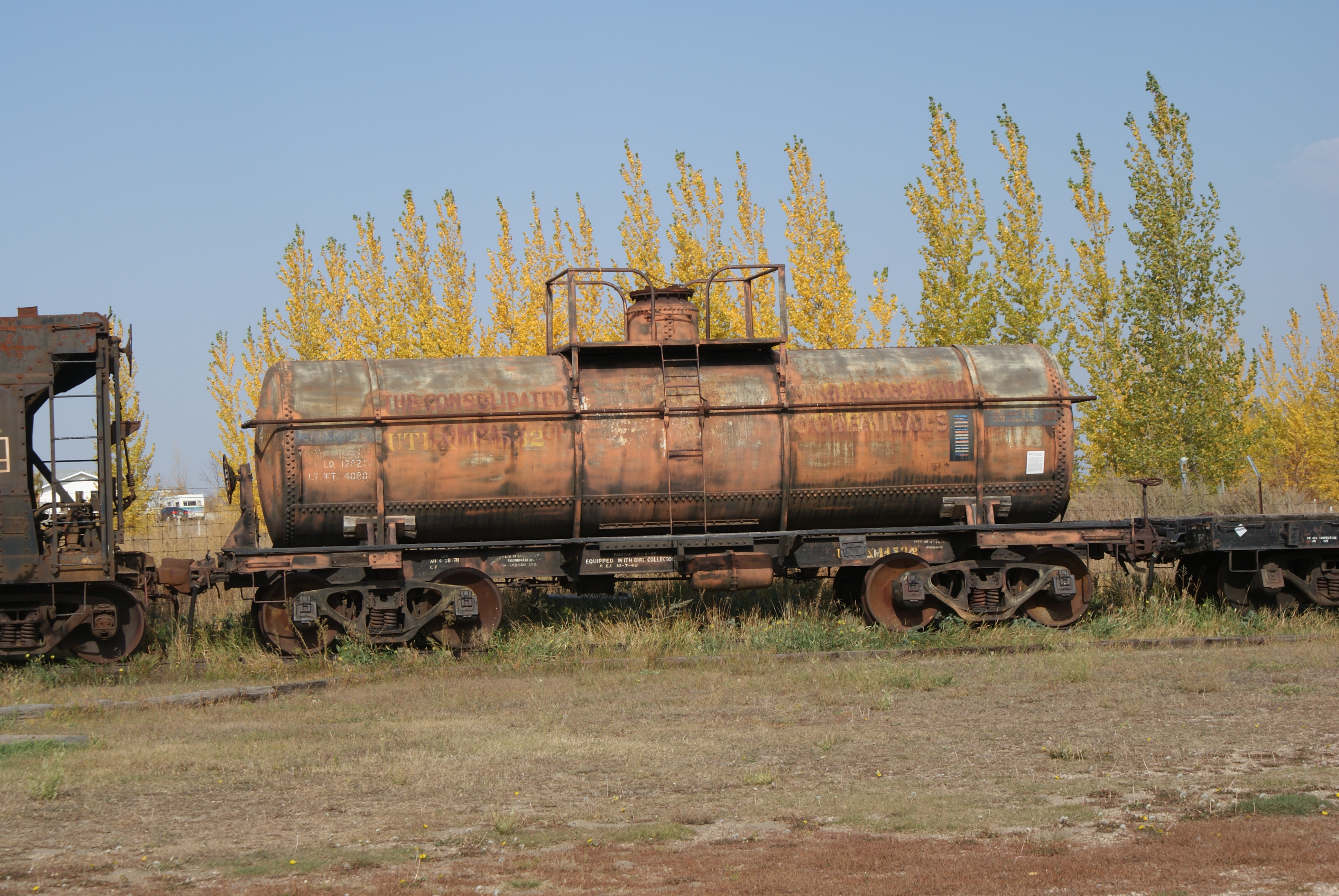 Saskatchewan Railway Museum Cominco Tank car 14532 was constructed in 1930 and used by the Union Tankcar Line for chemical hauling. This tank car was sold to Procor and then to Cominco. This particular tank car has belonged to the Saskatchewan Railway museum since 1992.